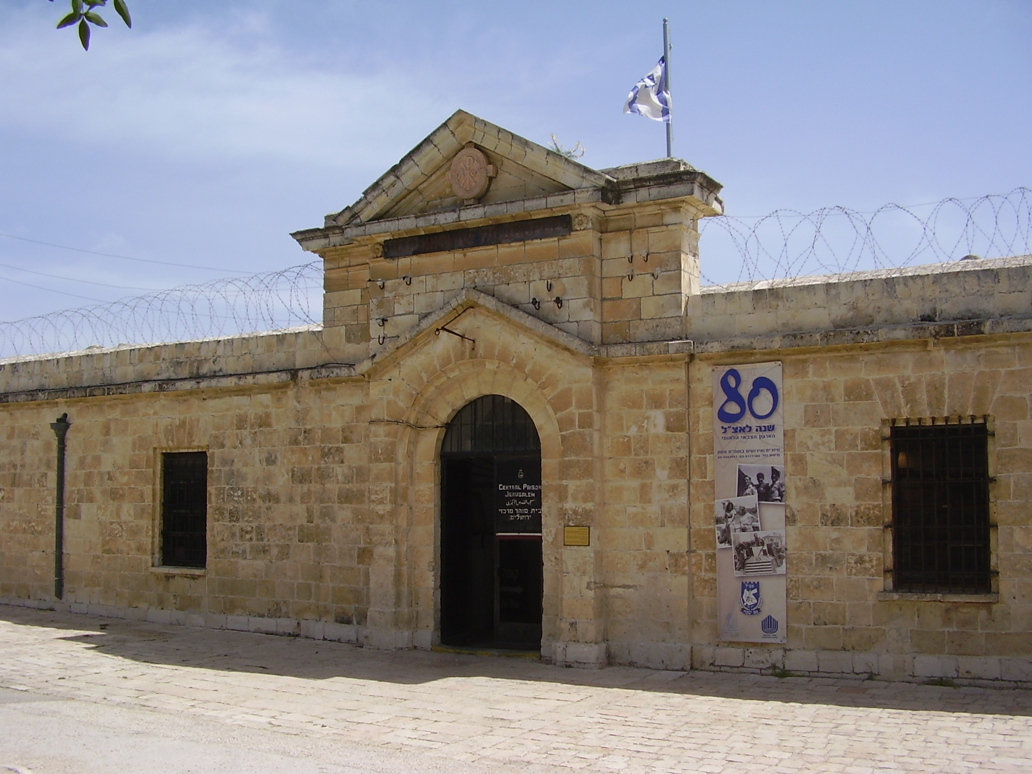 museum of the underground prisoners in jerusalem